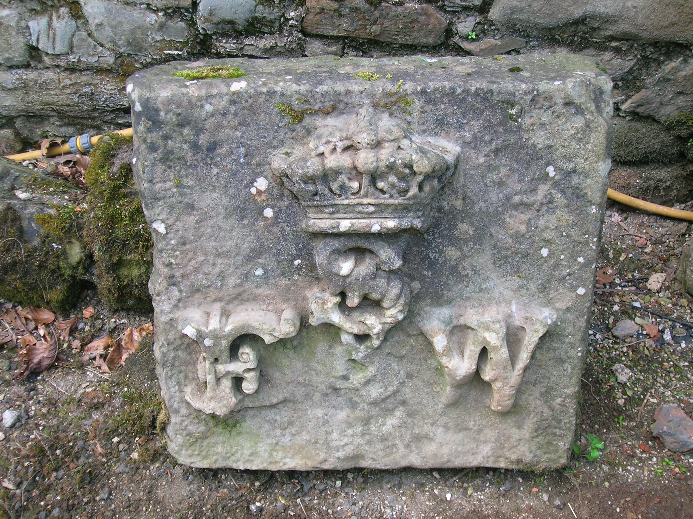 Sculpted stone, originally from Eglinton Castle, commemorating the Setons of Winton becoming Earls of Eglinton in the person of the 6th Earl of Eglinton.